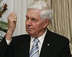 Michael Jeffery, Governor-General of Australia